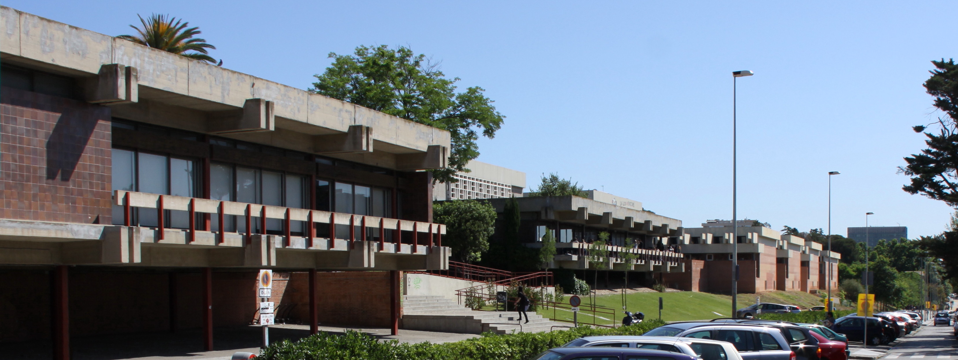 Building of the Faculty of Economics and Business Studies of Barcelona (1962-66), by Giráldez, López Íñigo and Subías.